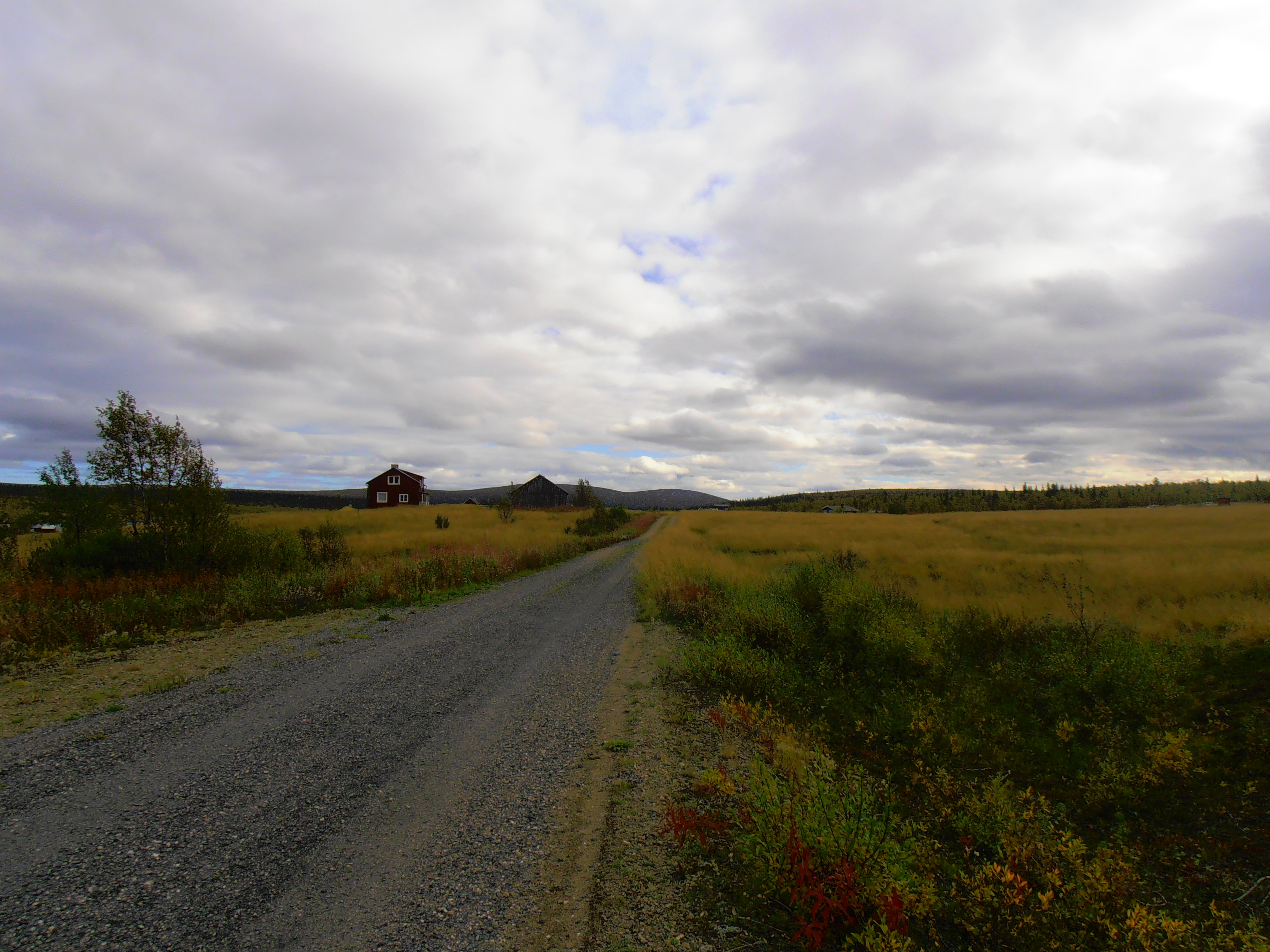 Pauki, Gällivare